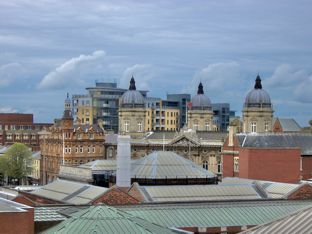 Note: geotagged images have been done manually, generally to ~5m or better accuracy, but human errors may occur. Location refers to camera location, no location of object photographed.